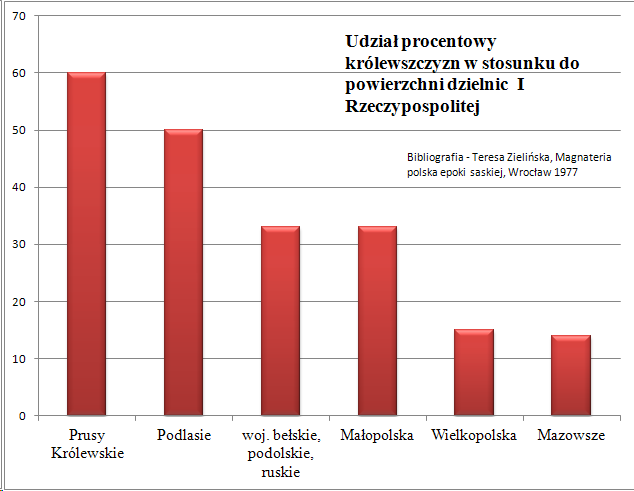 Percentage of the Crown lands in the Polish–Lithuanian Commonwealth